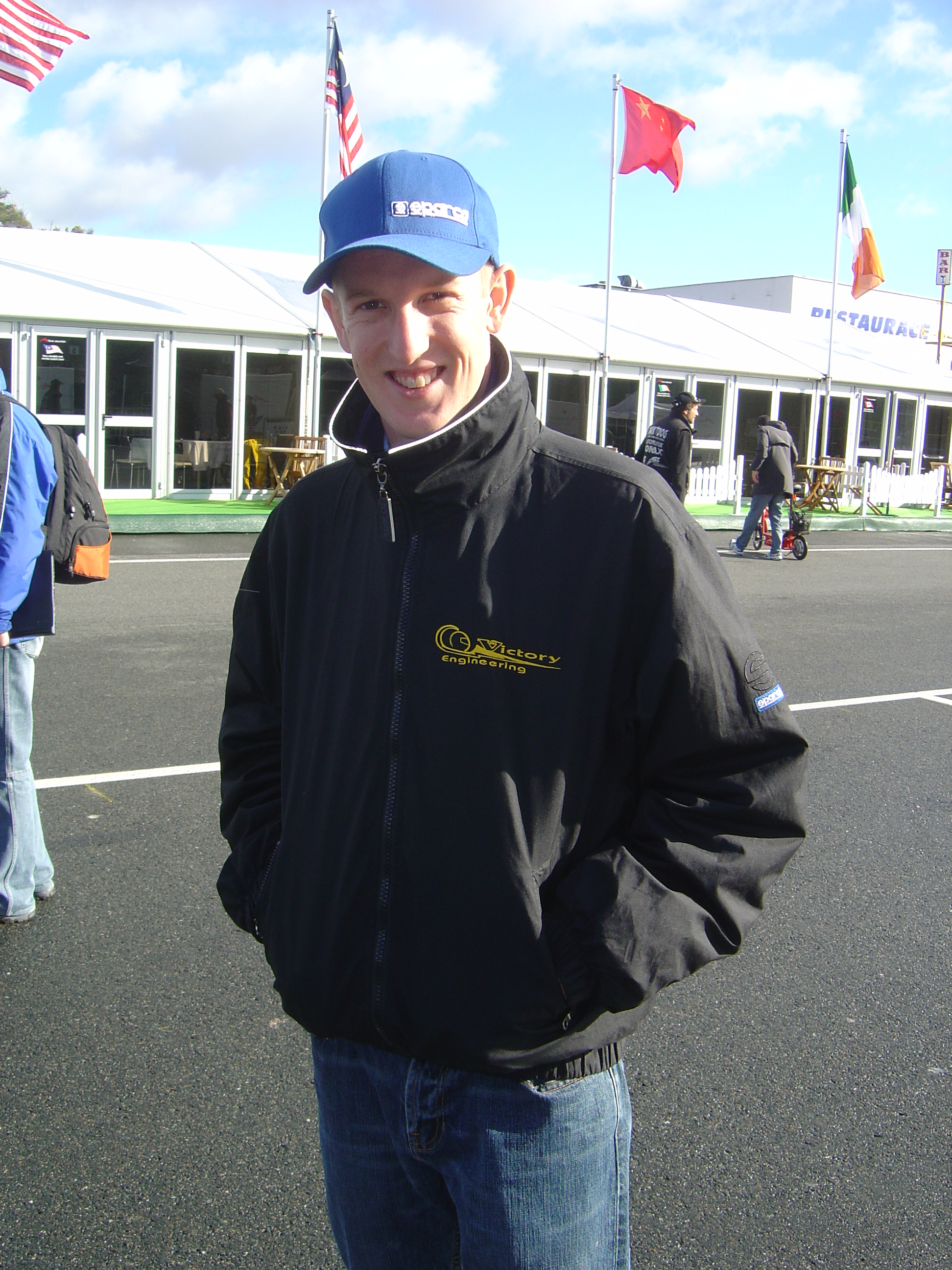 Charlie Kimball: the photo was taken during 2007's A1GP race weekend at Brno